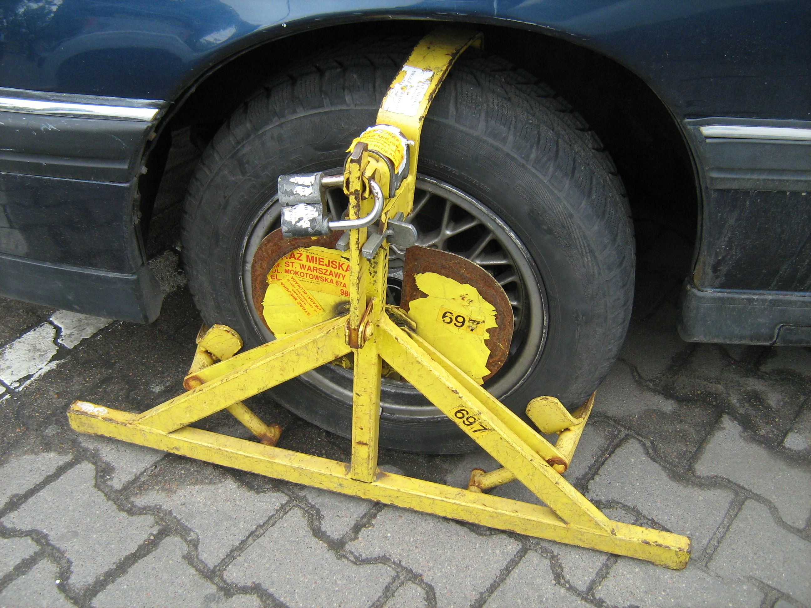 Wheel clamp on an Opel sedan in Warsaw